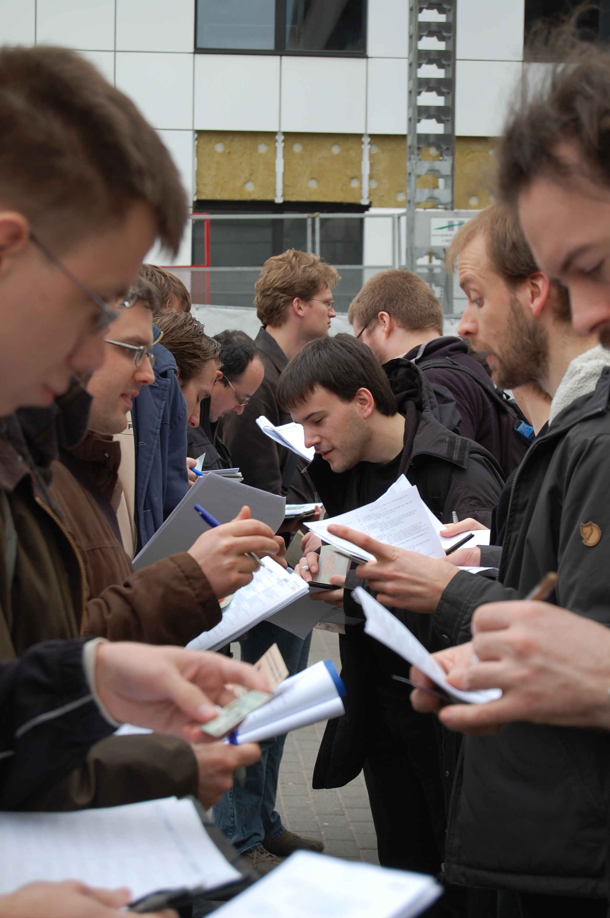 Picture from FOSDEM 2008.